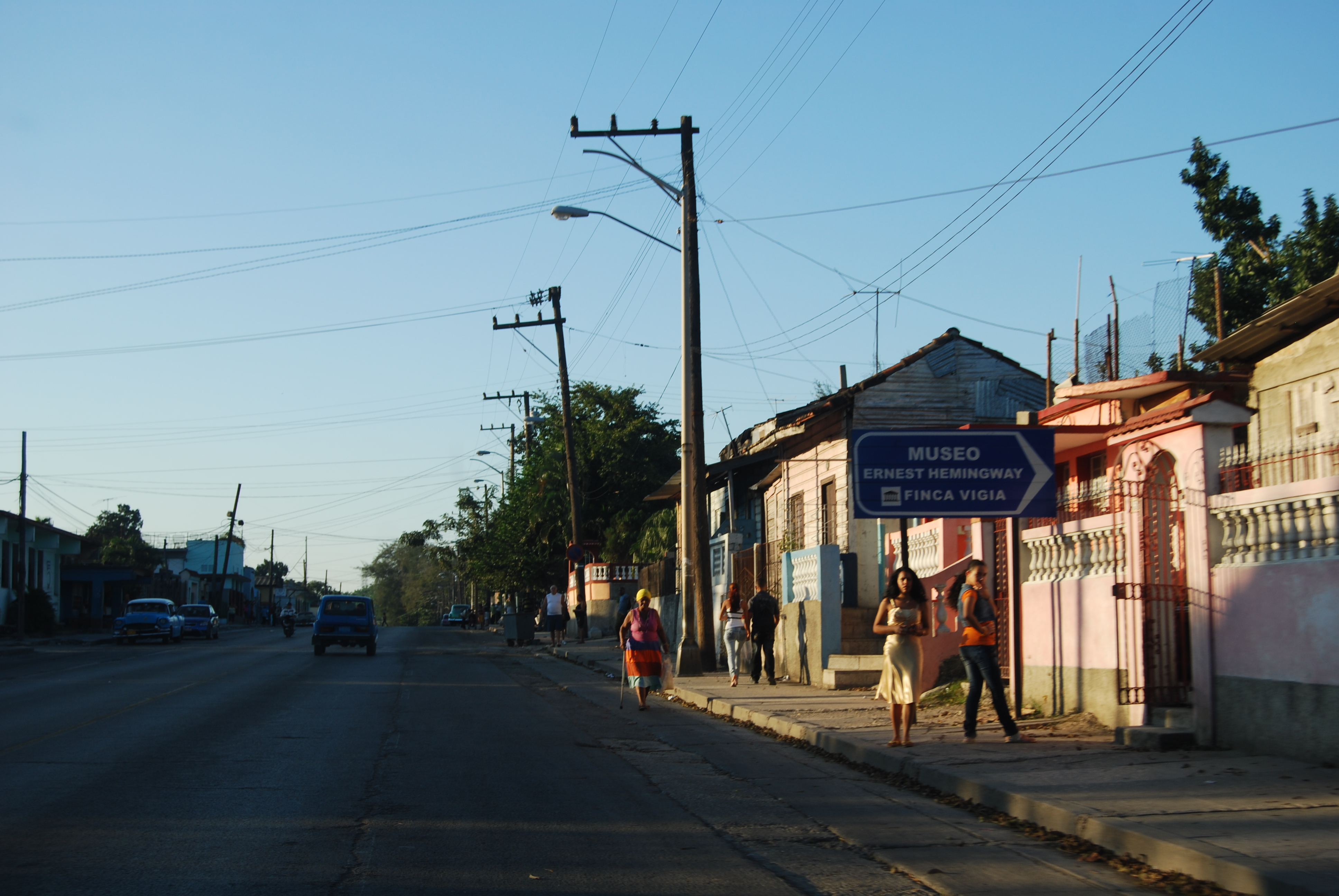 San Francisco de Paula, municipality San Miguel del Padrón, Cuba